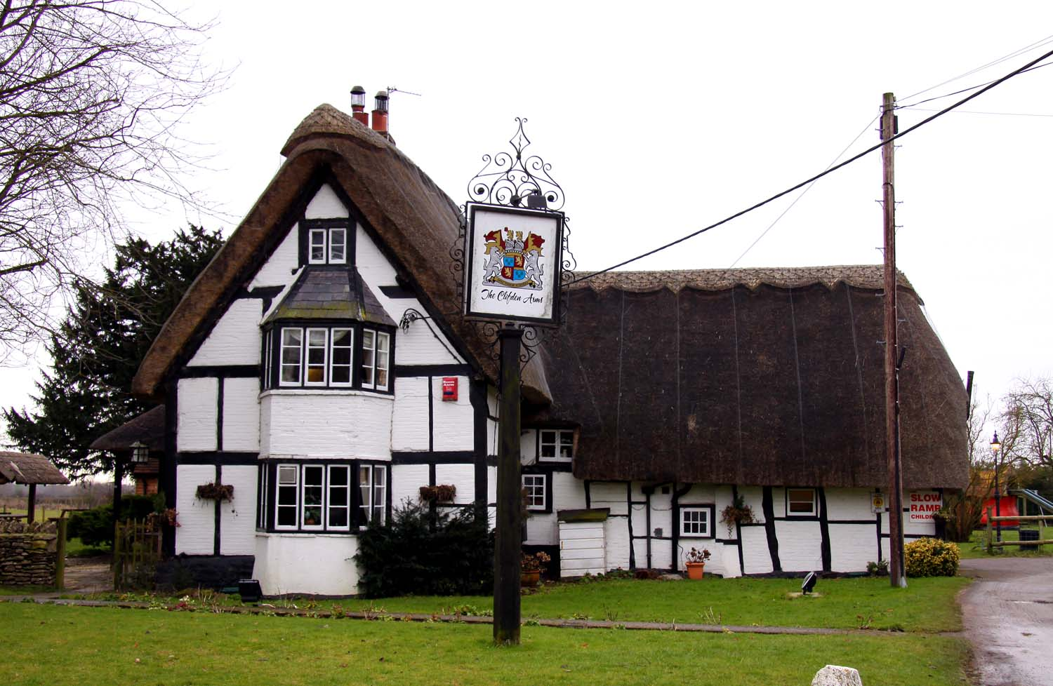 The Clifden Arms public house, Worminghall, Buckinghamshire